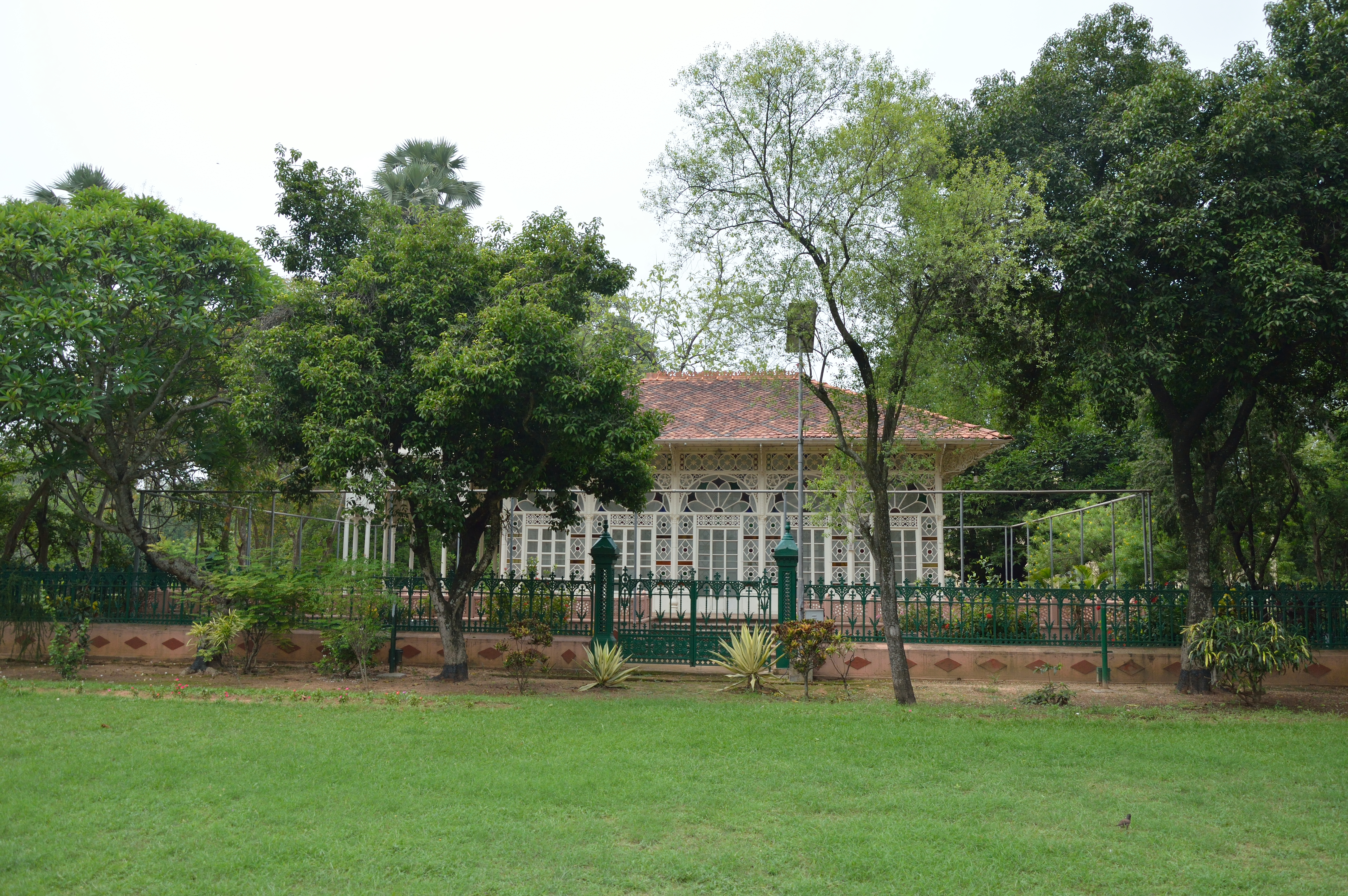 The Upasana Griha or Mandir (Prayer hall) . Photographed at the Visva-Bharati, Santiniketan. NOTE: This image is a panorama consisting of multiple frames that were merged or stitched in software. As a result, this image necessarily underwent some form of digital manipulation. These manipulations may include blending, blurring, cloning, and color and perspective adjustments. As a result of these adjustments, the image content may be slightly different than reality at the points where multiple images were combined. This manipulation is often required due to lens, perspective, and parallax distortions.